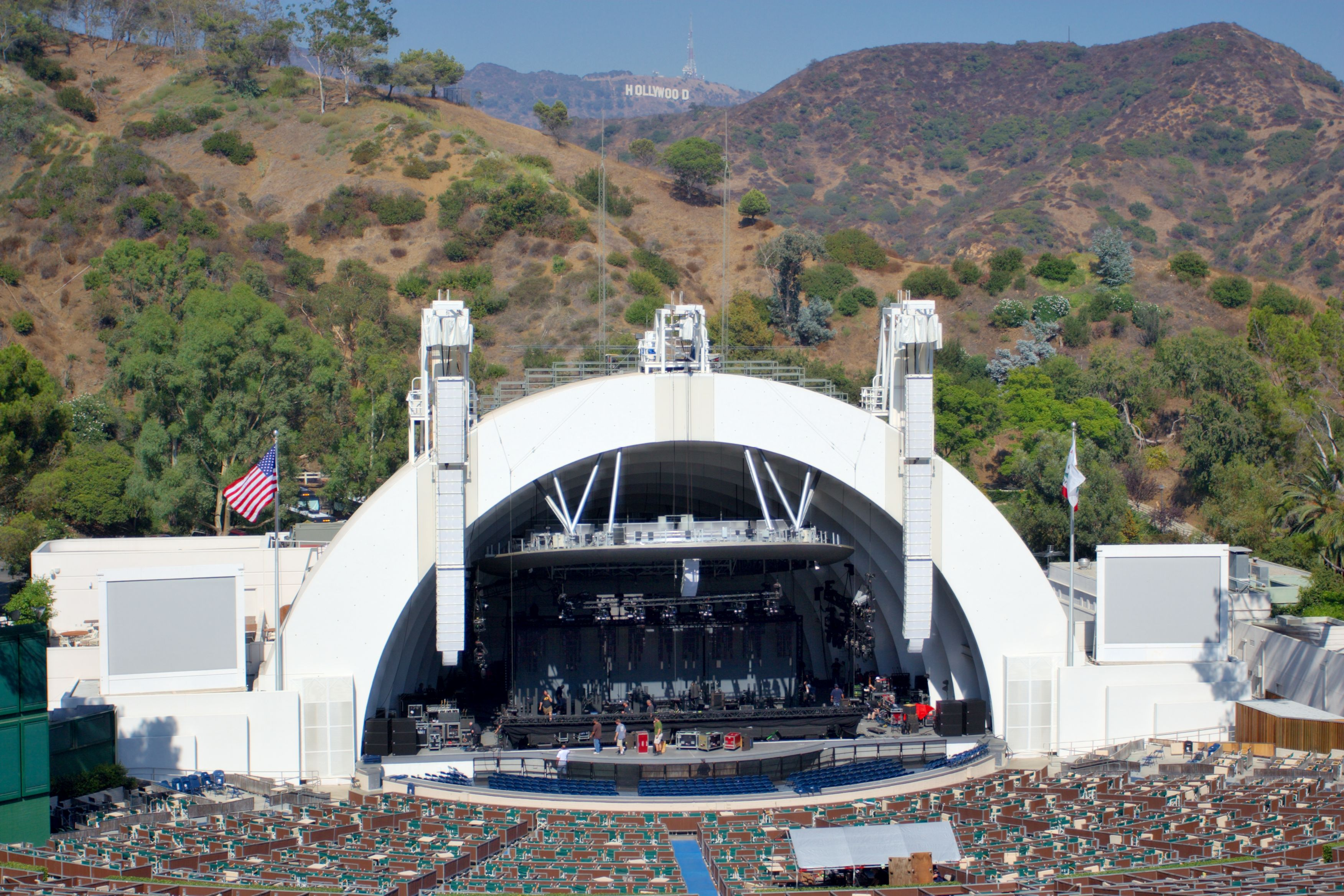 The Hollywood Bowl amphitheatre, stage and Hollywood sign in mountains behind